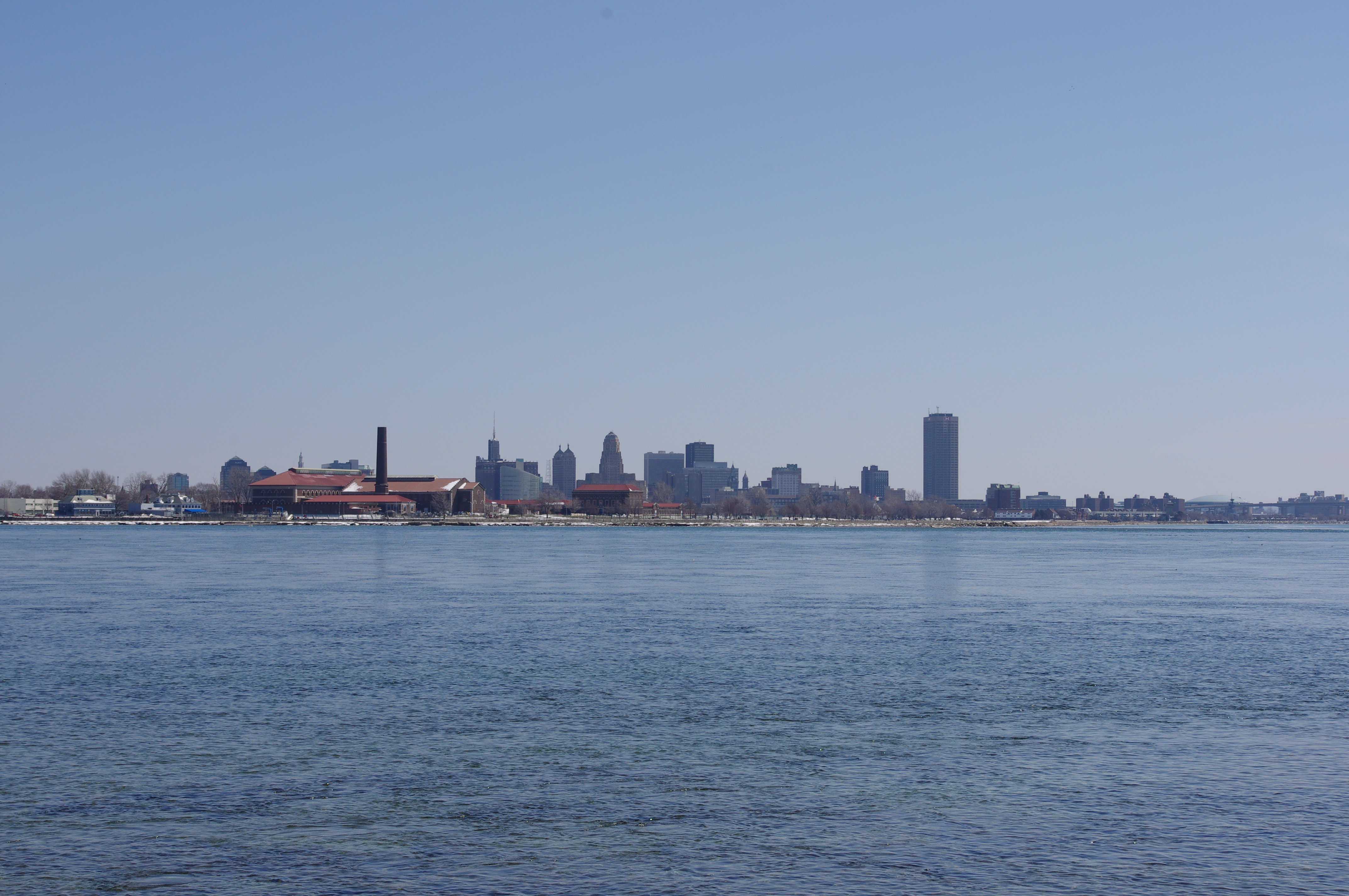 Taken on the shore of Lake Eire in Canada.